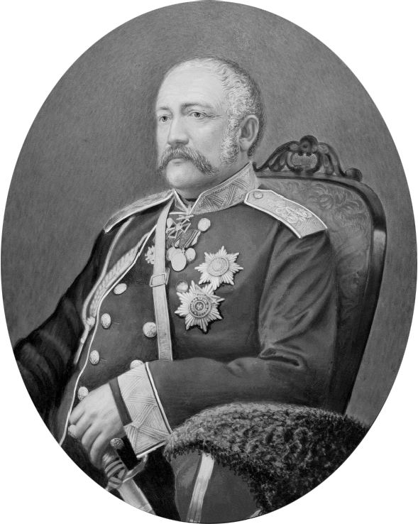 Prince Grigol Orbeliani, a Georgian writer and general.